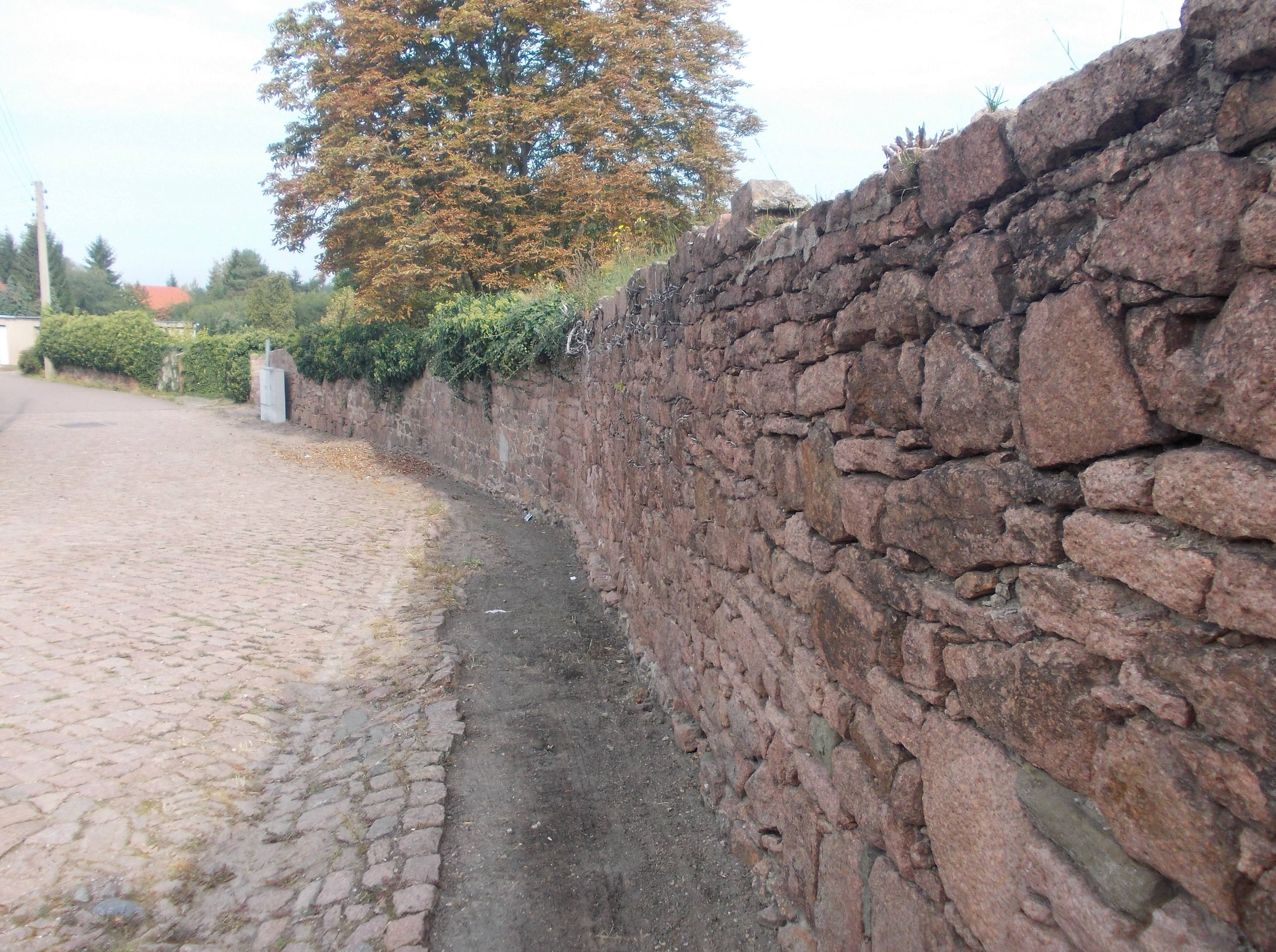 Town wall of Löbejün (Wettin-Löbejün, district: Saalekreis, Saxony-Anhalt)